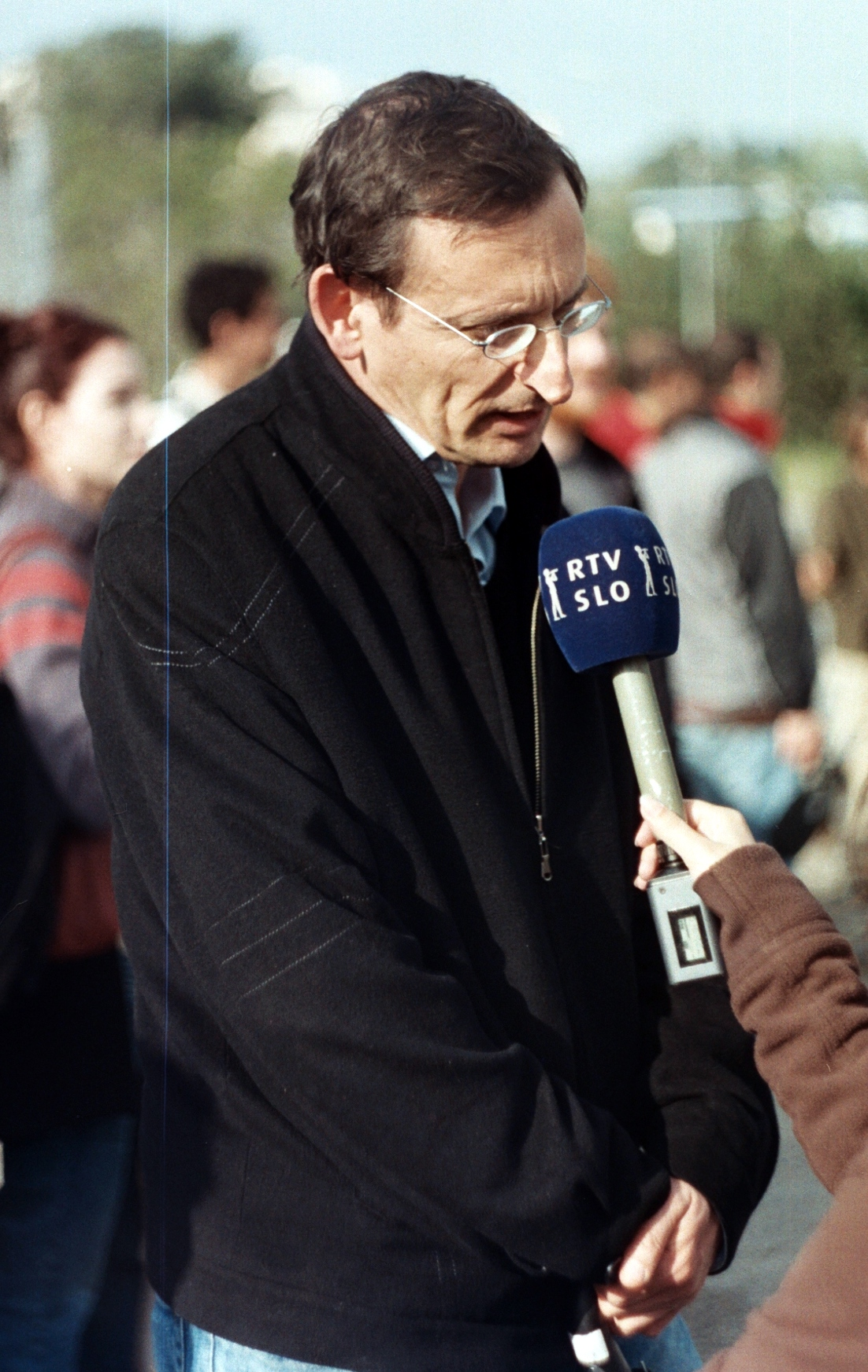 Dov Khenin, Israeli political-scientist, lawyer, and member of the Knesset for the leftist Hadash party, giving an interview while supporting a protest in Sheikh Jarrah neighborhood in East Jerusalem, Israel.